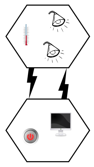 ZigBee nodes seen as collections of devices that can be manipulated or used by other nodes.